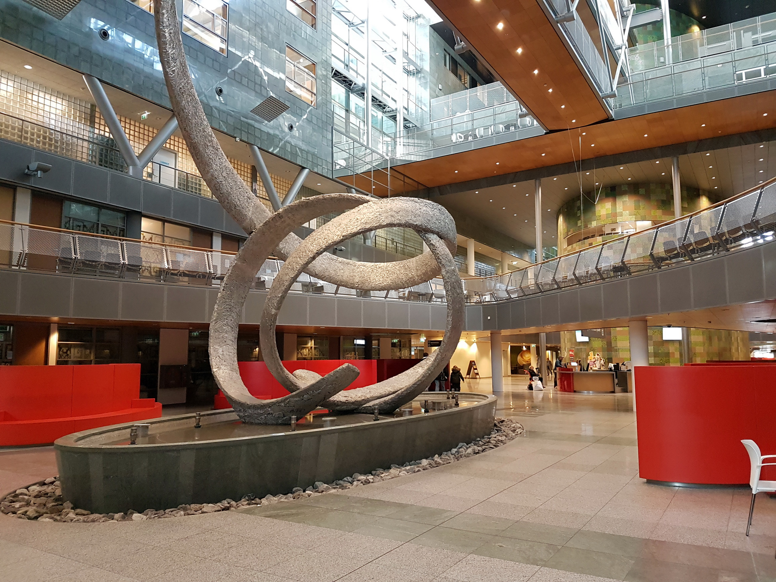 View of the atrium of Orbis Medisch Centrum (Zuyderland), a general hospital opened in 2009 in Sittard-Geleen, the Netherlands.